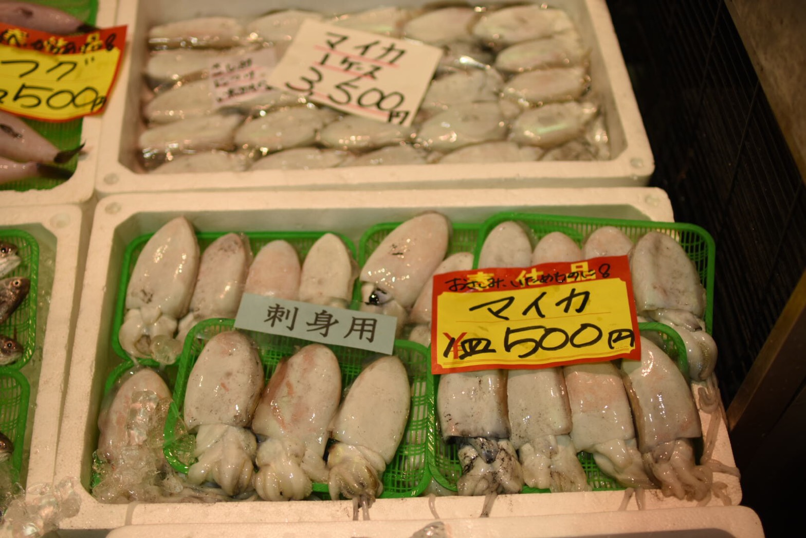 Sepia esculenta for sale in Yawatahama market.